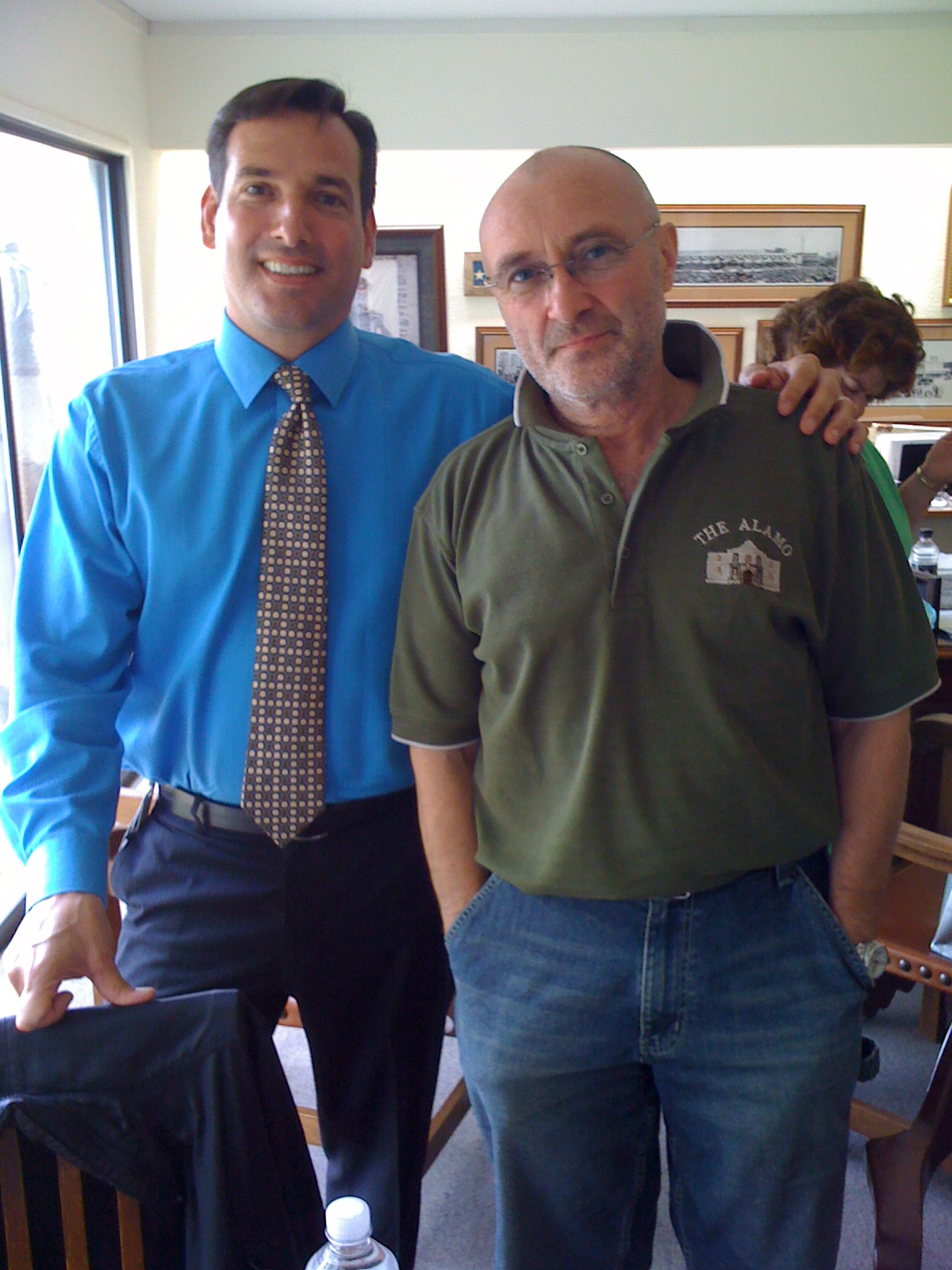 Tony Caridi and Phil Collins May 2010 Phil Agrees to Perform at the 175th event.